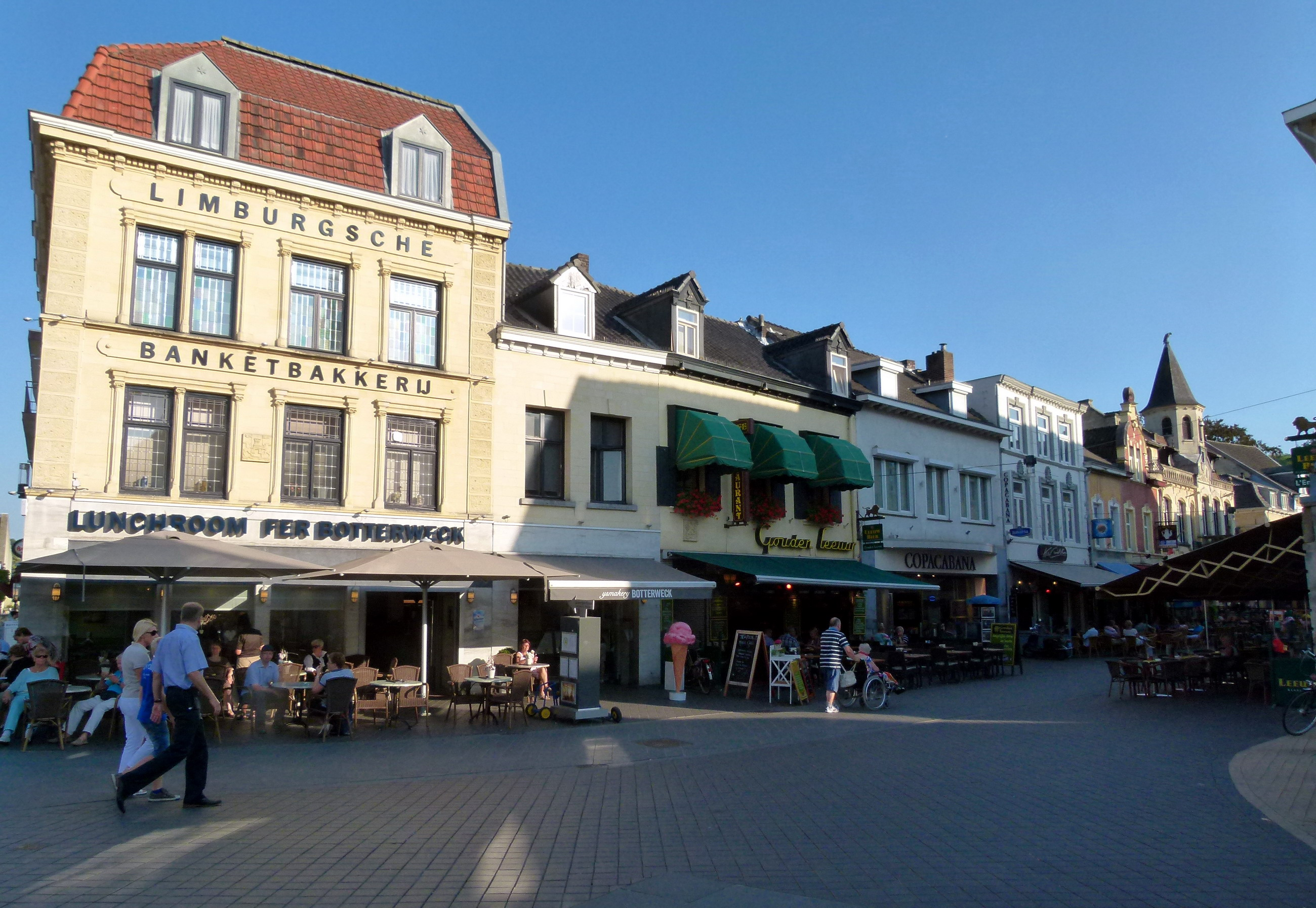 Valkenburg, Limburg, the Netherlands. View of Grotestraat in the center of Valkenburg.